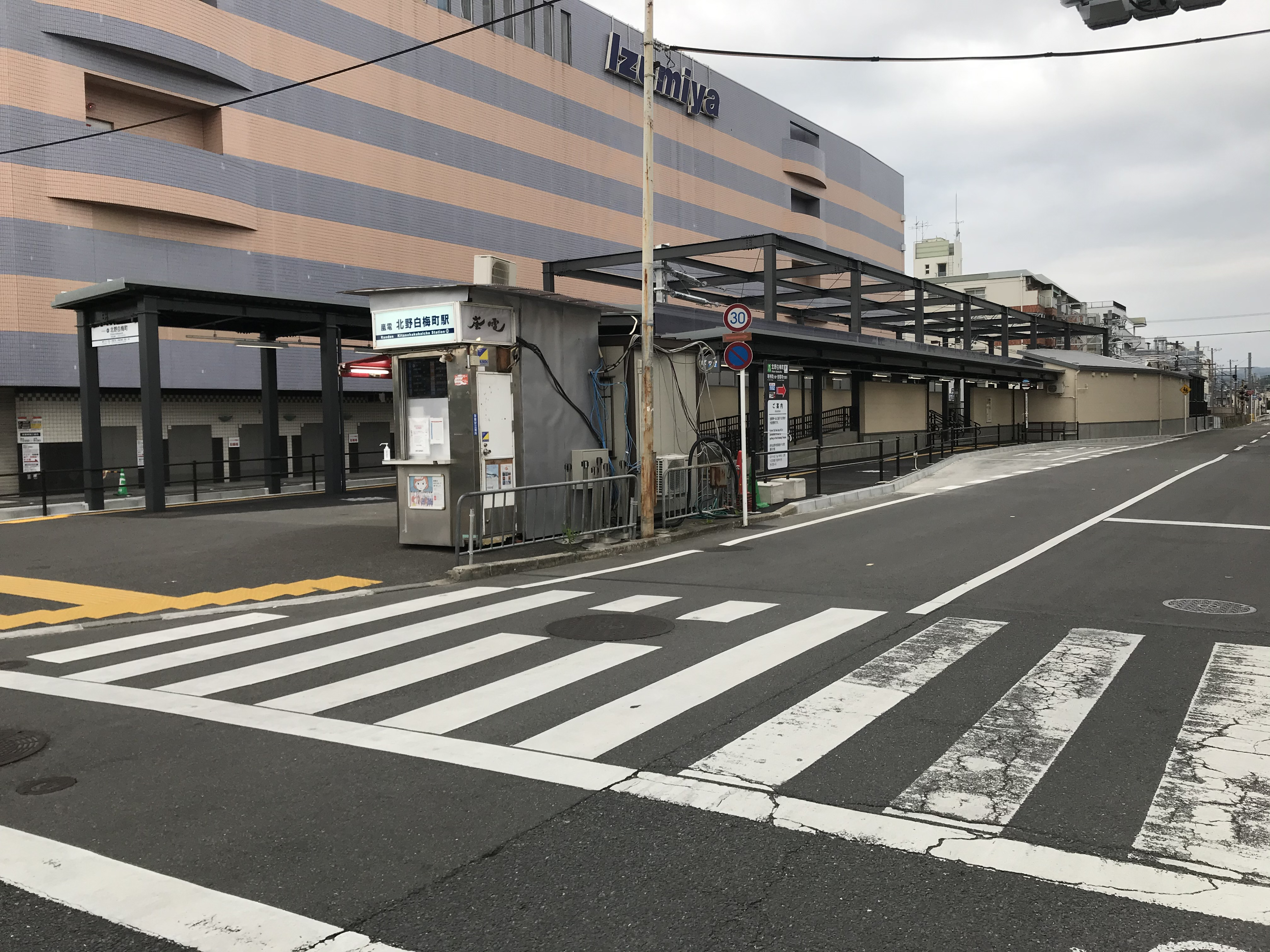 Kitano Hakubai cho station viewing from north east